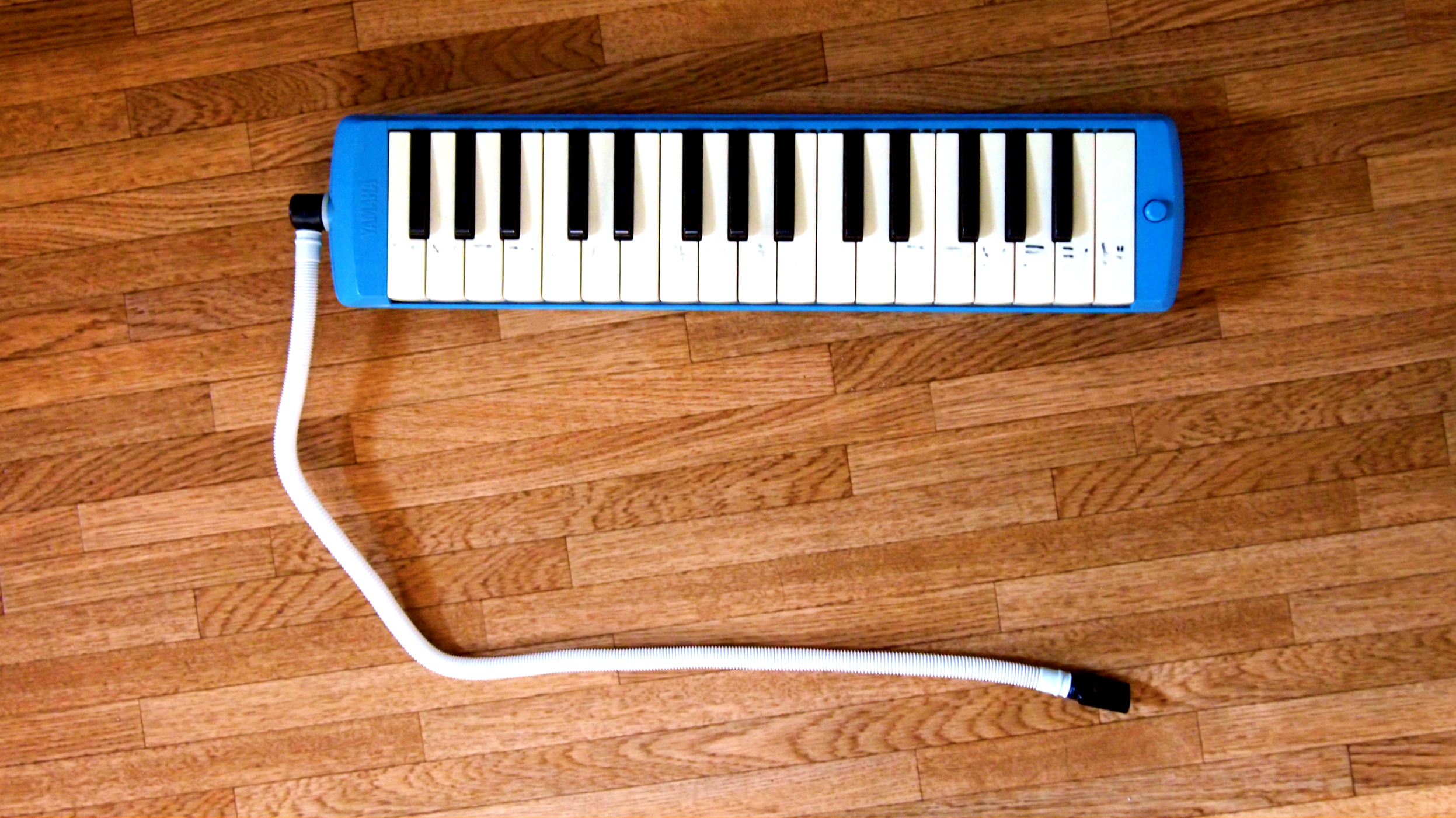 Yamaha Pianica P-32D with mouthpiece extension